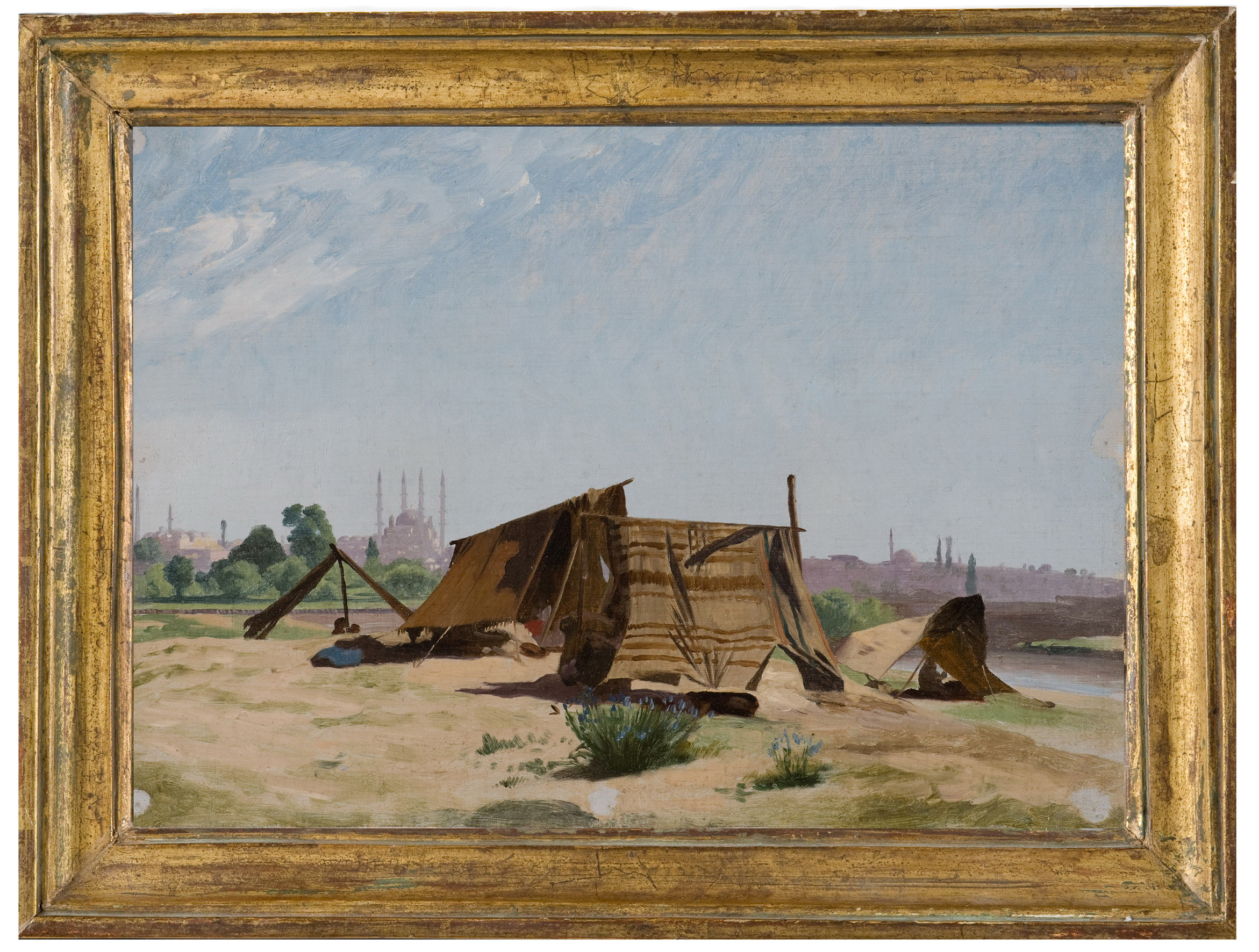 Jean-Léon Gérôme 1878 An Encampement pres de Constantinople Oil on Canvas 230x310 mm. Plein-air sketch This sketch documents one of Gérômes journeys to Constantinople.